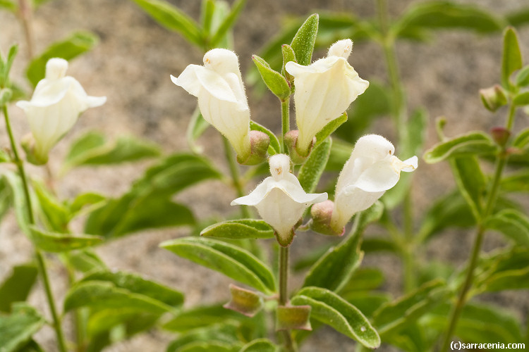 Image from Califlora